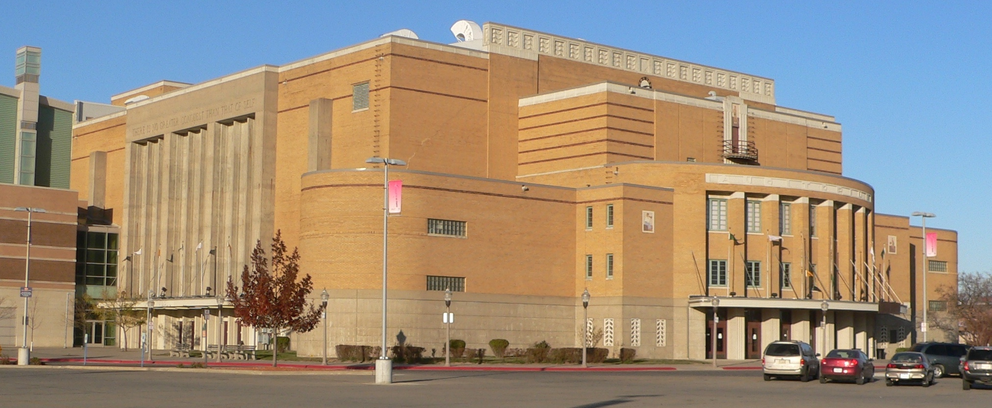 Sioux City Municipal Auditorium, now part of the Tyson Events Center, in Sioux City, Iowa; seen from the southwest.